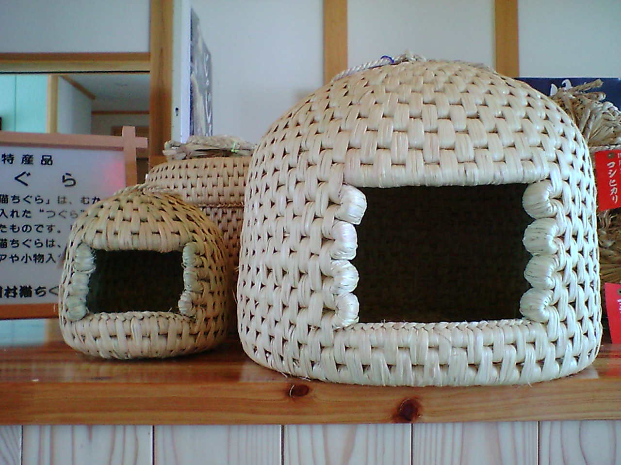 The pet house of a cat called Neko-chigura, Japanese folkcraft.